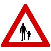 The new version of the warning traffic sign that indicates "children crossing the street".